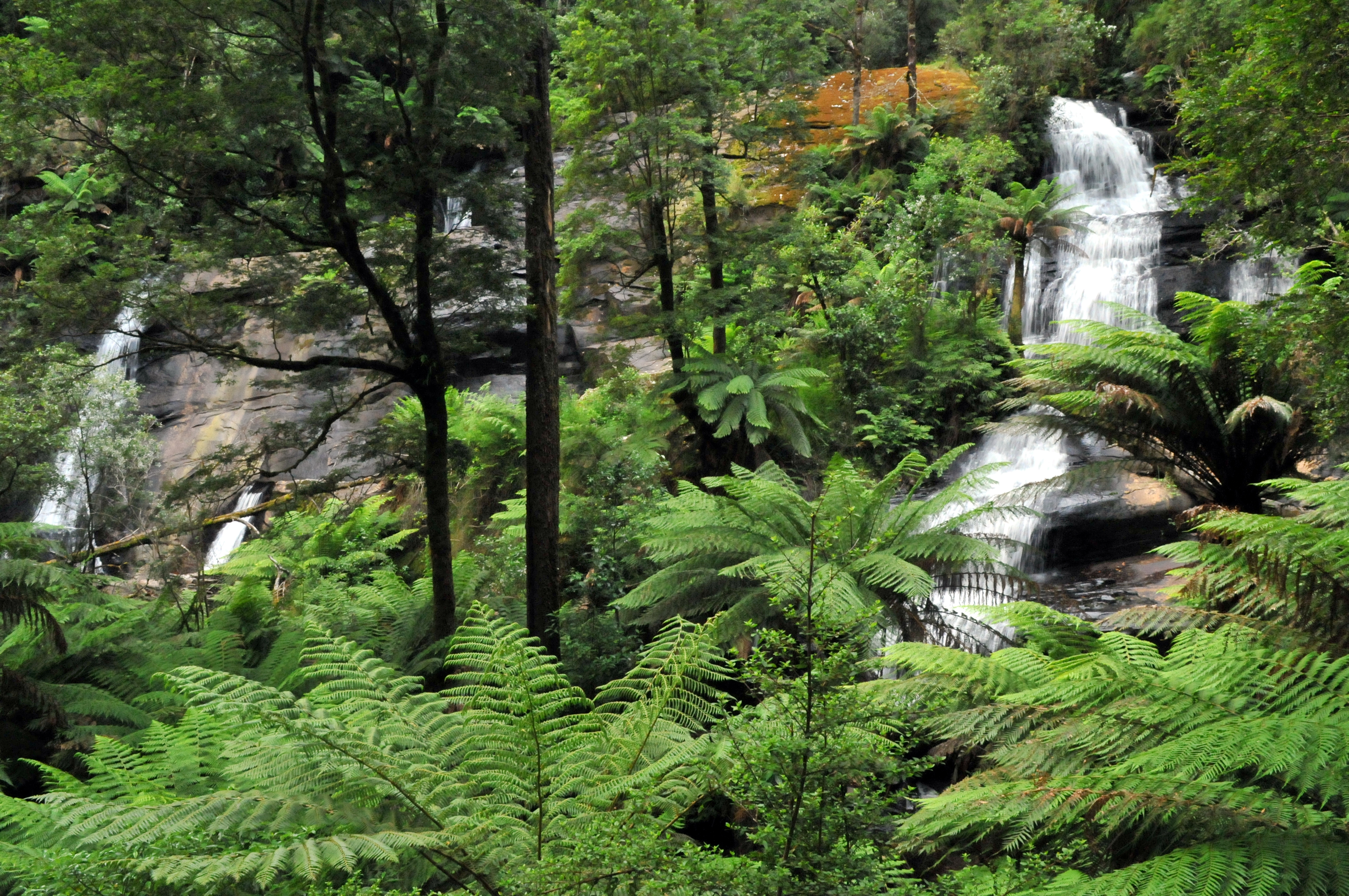 Triplet Falls as seen from the third observation deck along the track, closest to the falls.